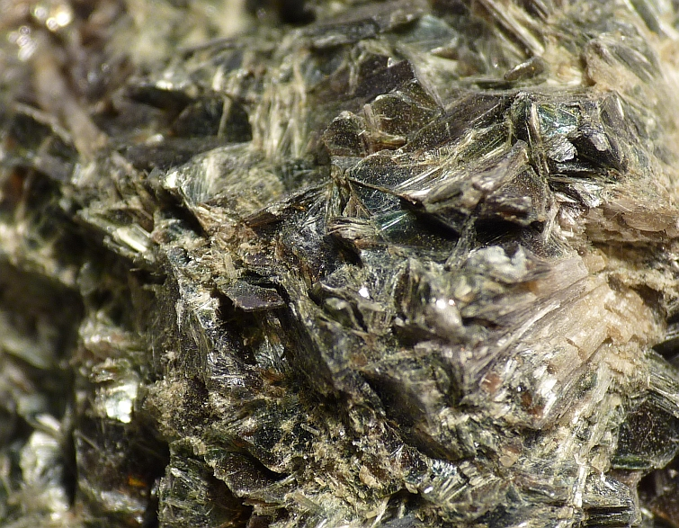 Vermiculite Locality: Paakkila, Tuusniemi, Eastern Finland Region, Finland (Locality at ) Micaceous plates of greenish brown vermiculite. Field of view 1.5 cm